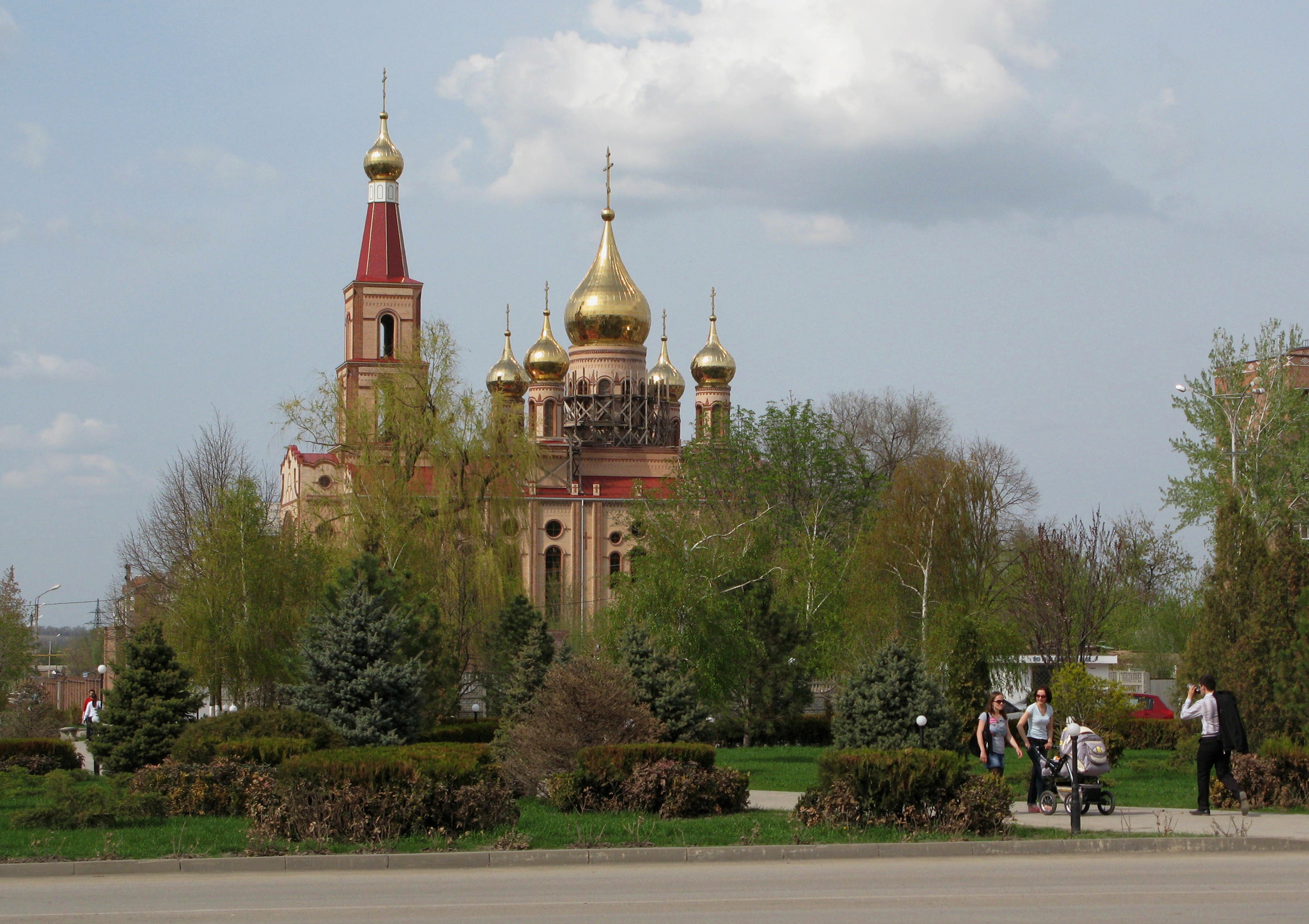 Salsk, Rostov-on-Don region, Russian Federation, St Cyril and Methodius Cathedral